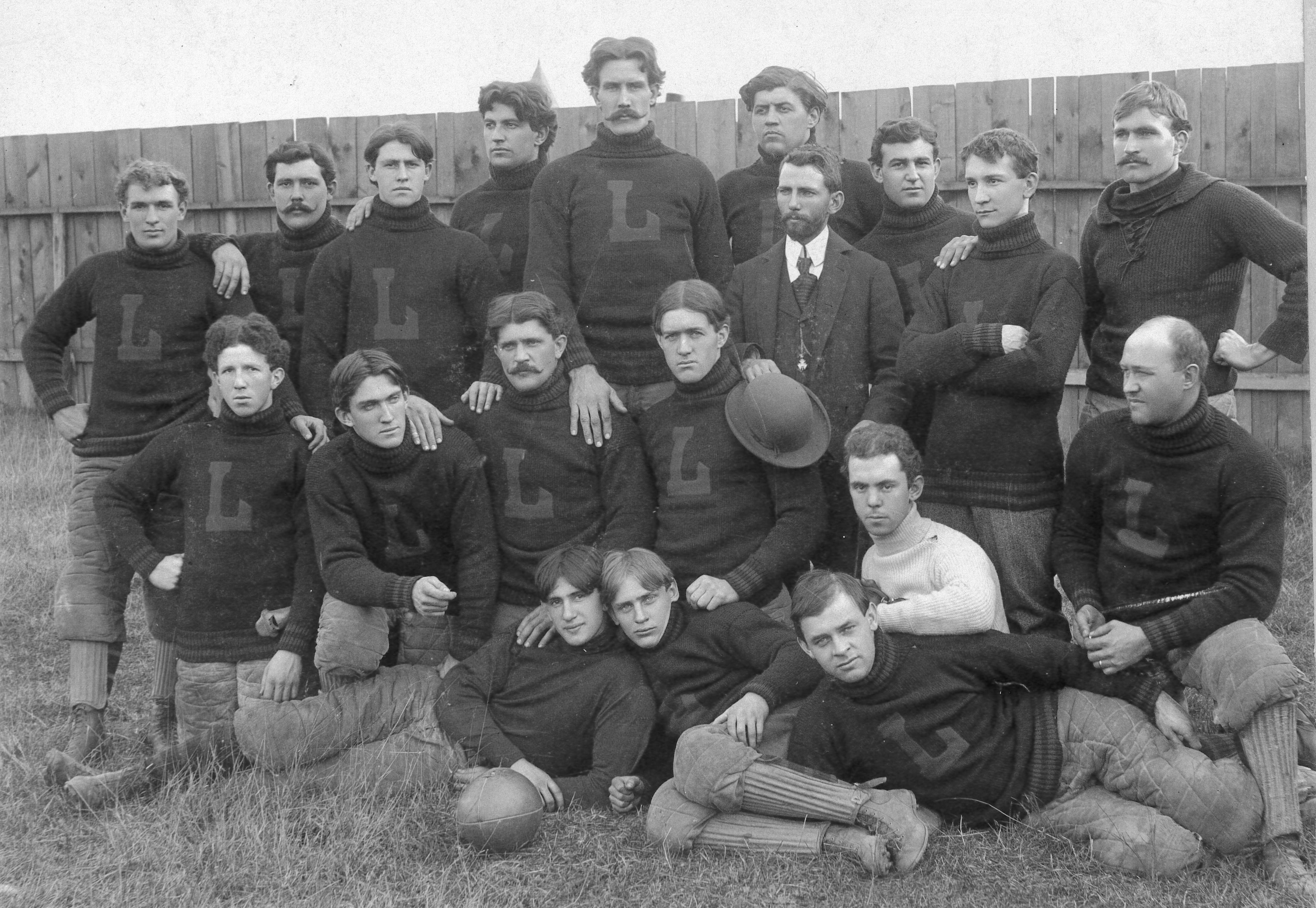 The Latrobe Atheletic Association fielded the first professional football team that played an entire season, in 1897.